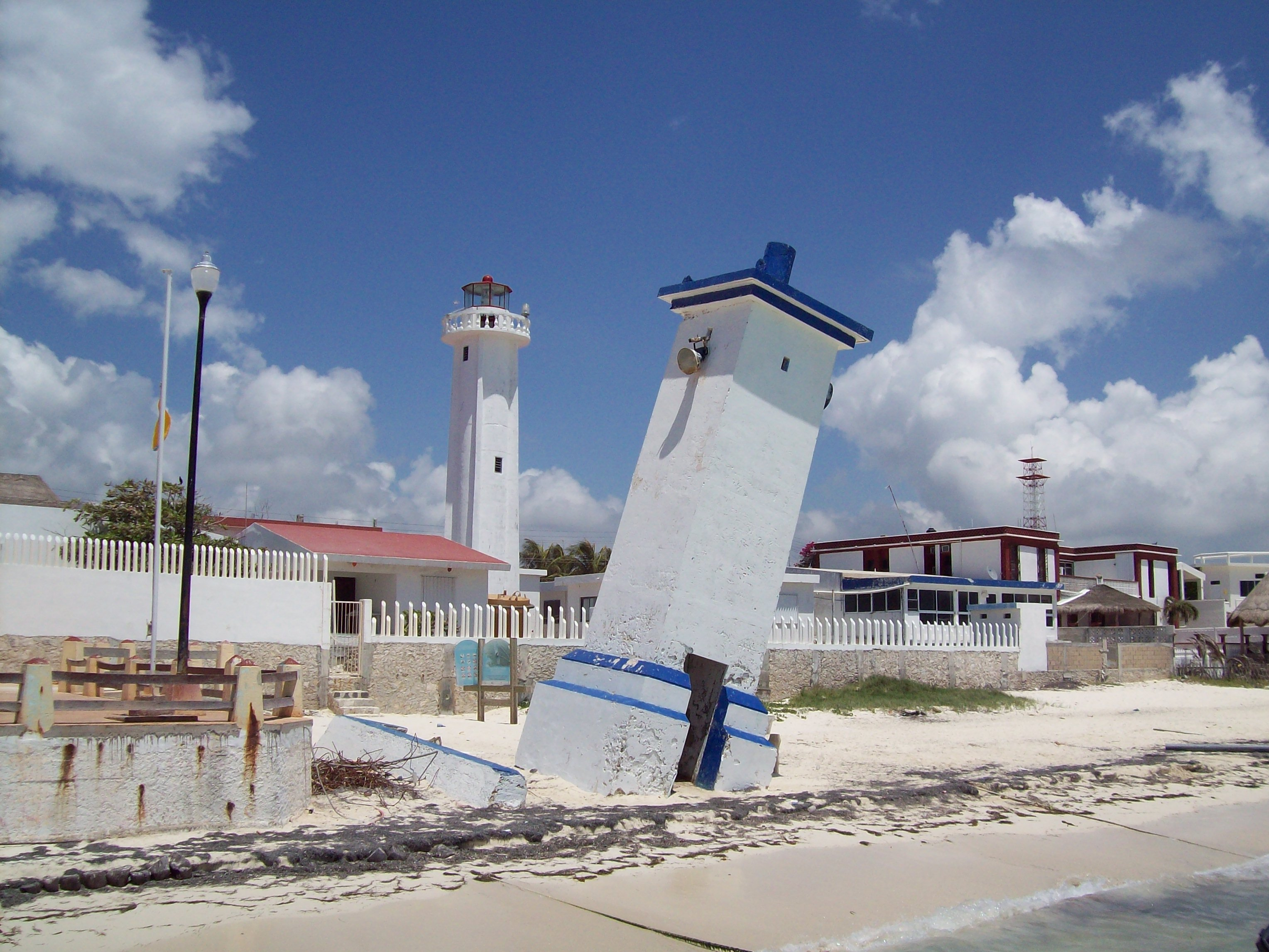 Lighthouse tilted by Hurricane Beulah in 1967, the symbol of Puerto Morelos